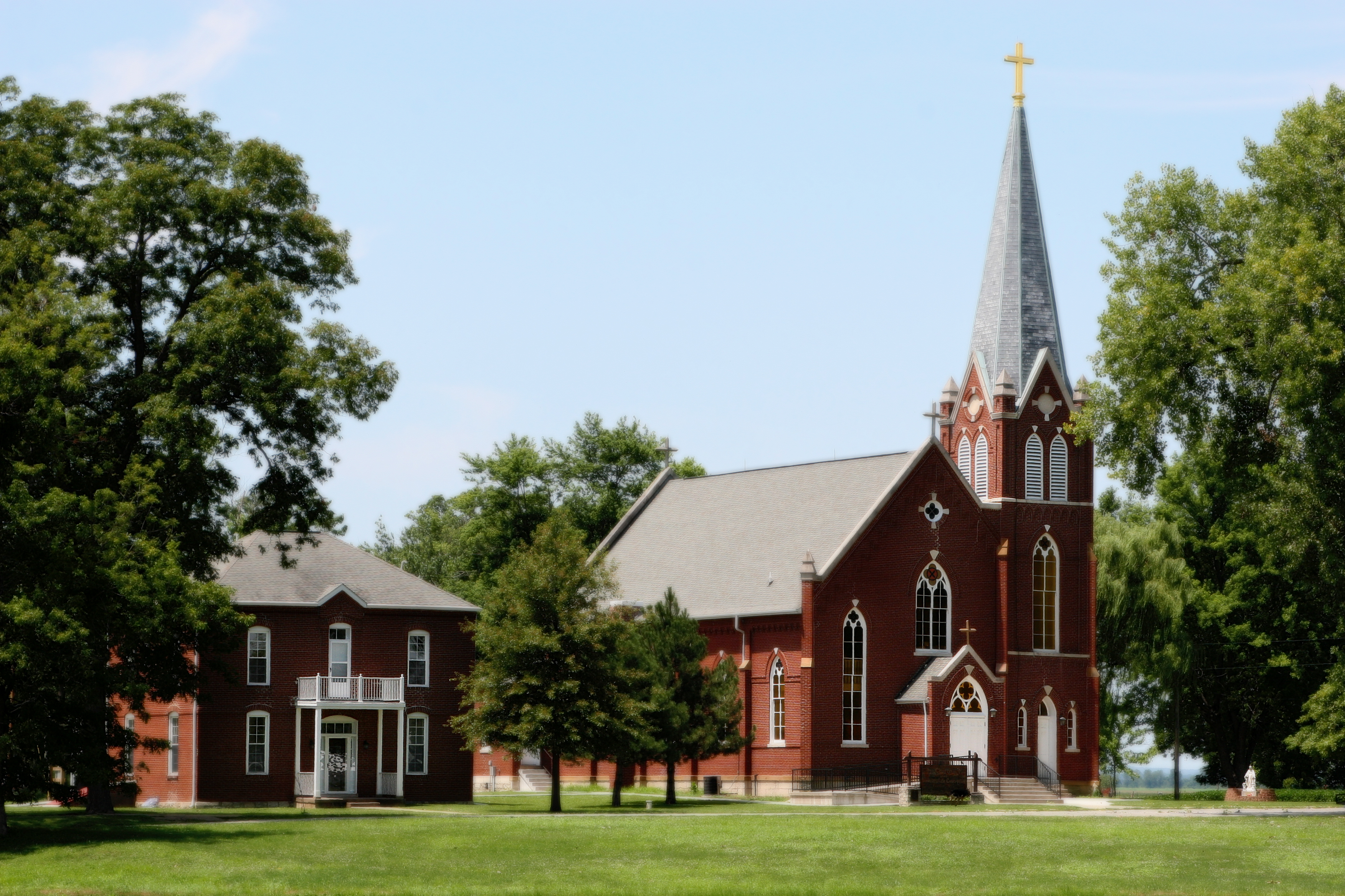 This is a photograph of the Kaskaskia church (Church of the Immaculate Conception) in Kaskaskia, Illinois